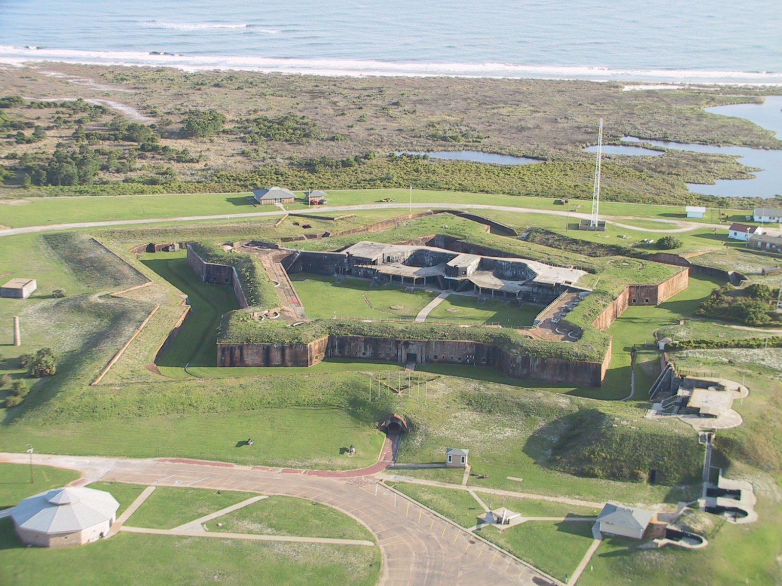 Aerial photo of Fort Morgan, Alabama